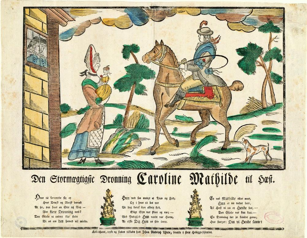 "Den Stormægtigste Dronning Caroline Mathilde til Hæst". Satirical print from 1772, showing the queen Caroline Mathilde riding away dressed as a man. Struensee is watching from prison. The nanny is carrying their child, princess Louise Augusta.